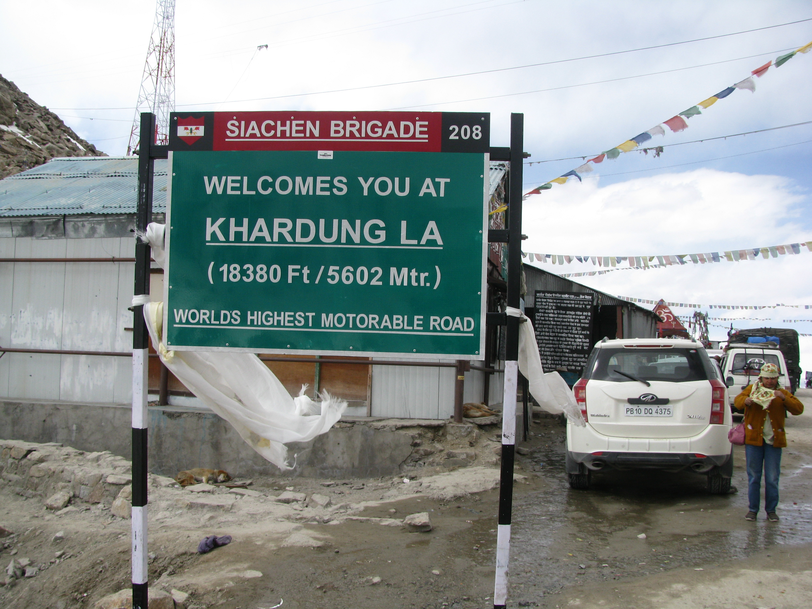 Worlds highest moterable road, provides a unique experience to those who love to see the world on two wheels.